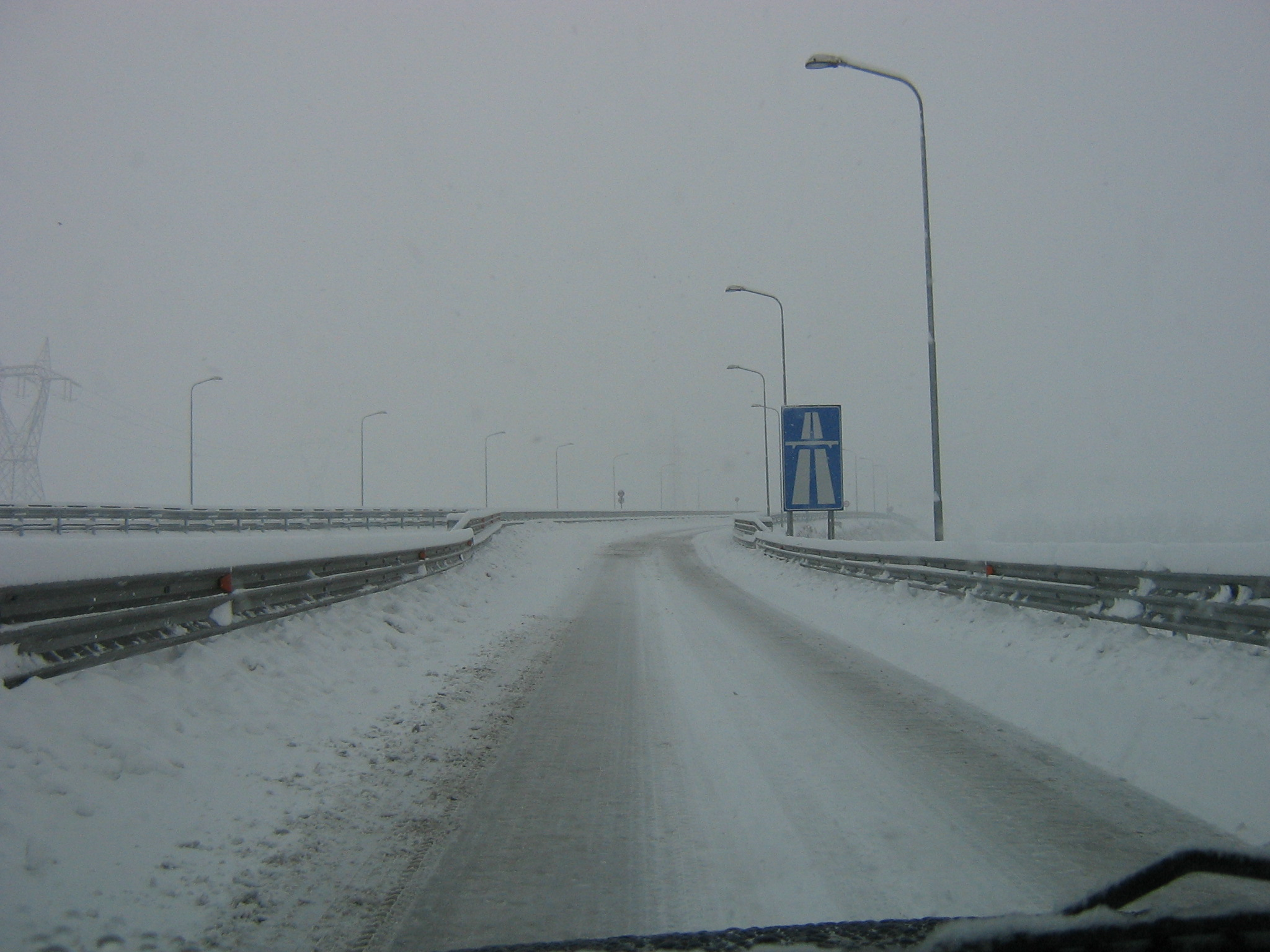 Interchange between the so-called Peduncolo (first completed part of the future north by-pass of Cremona, Italy) and the SP CR 234 (former Italian state road 234 "Codognese"), with the road surface still covered by ice and snow after the strong snowfall of January 7th, 2009. The blue highway sign visible on the right of the ramp marks the beginning of a toll-free freeway/motorway (superstrada).